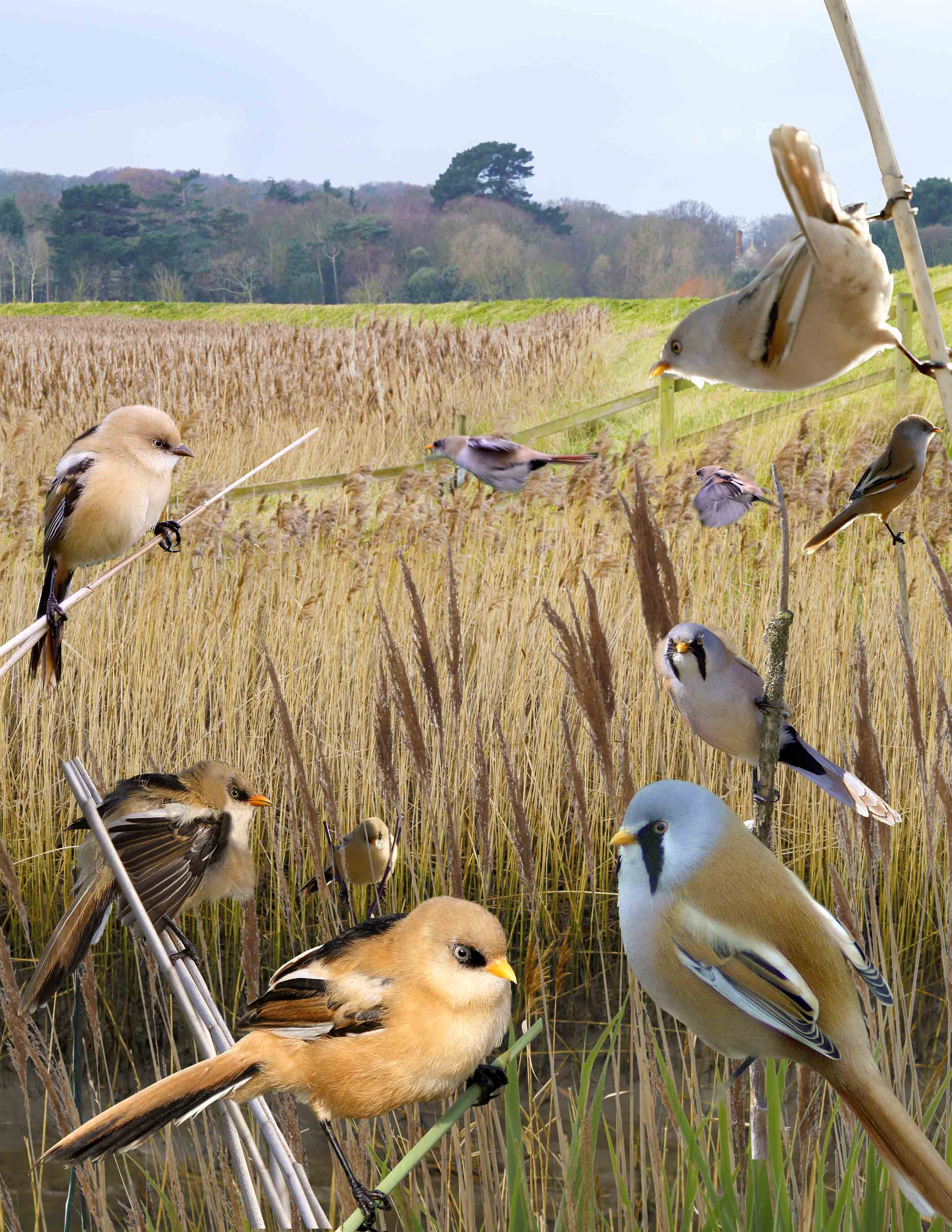 Bearded Tit from the Crossley ID Guide Britain and Ireland